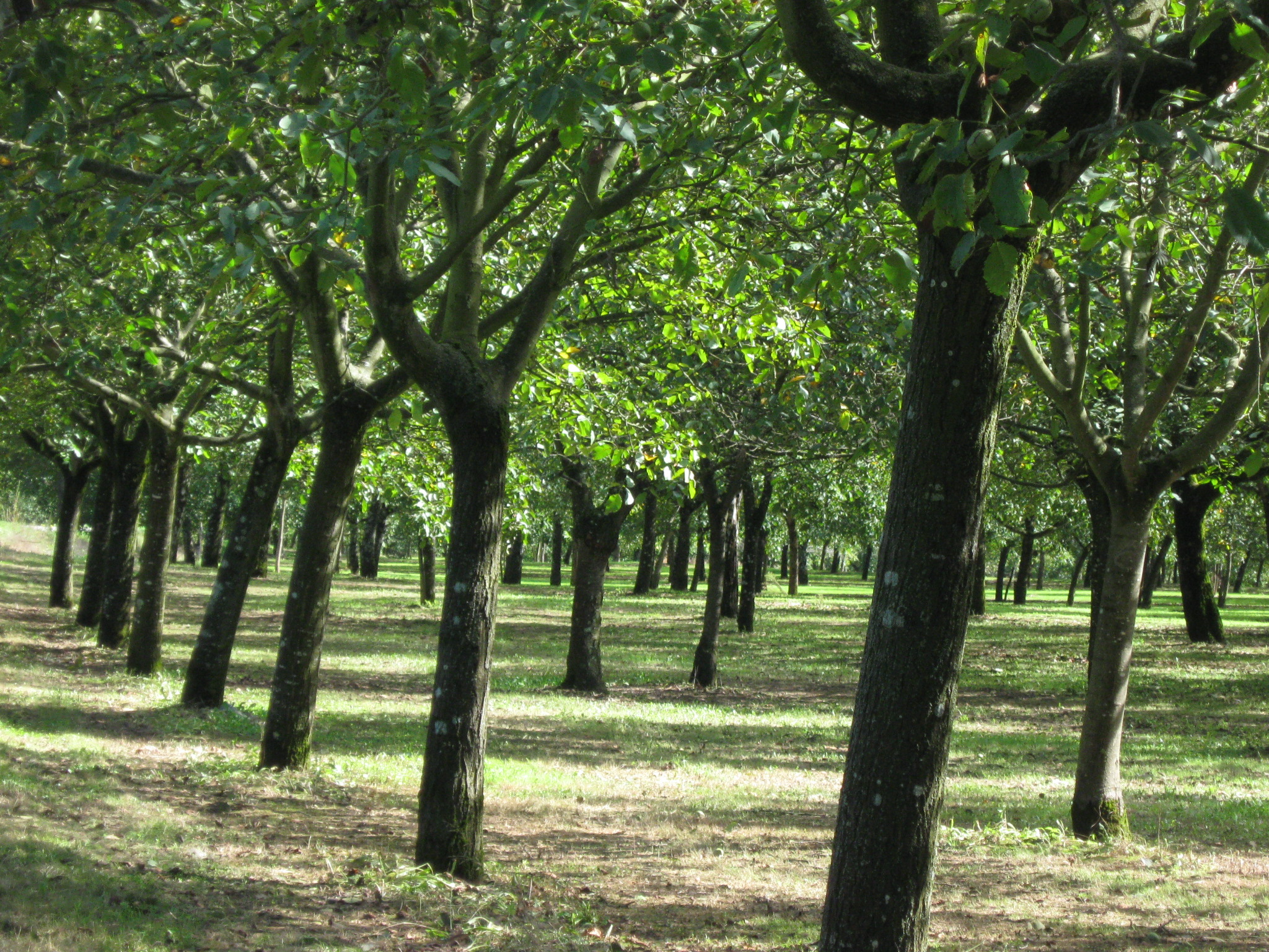 une noyeraie = champ de noyers